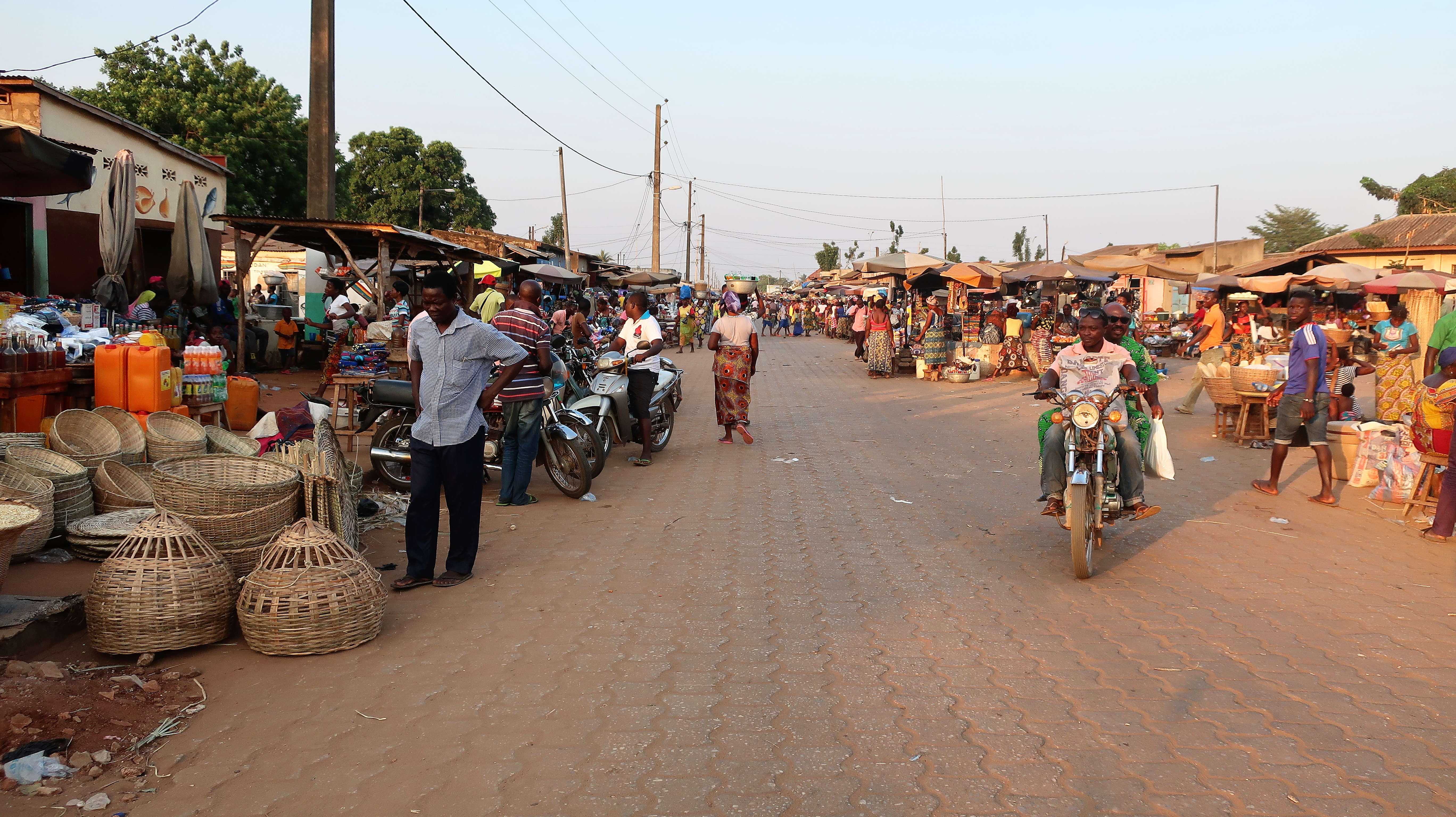 Street near a market place in Comè, Benin in December 2017.